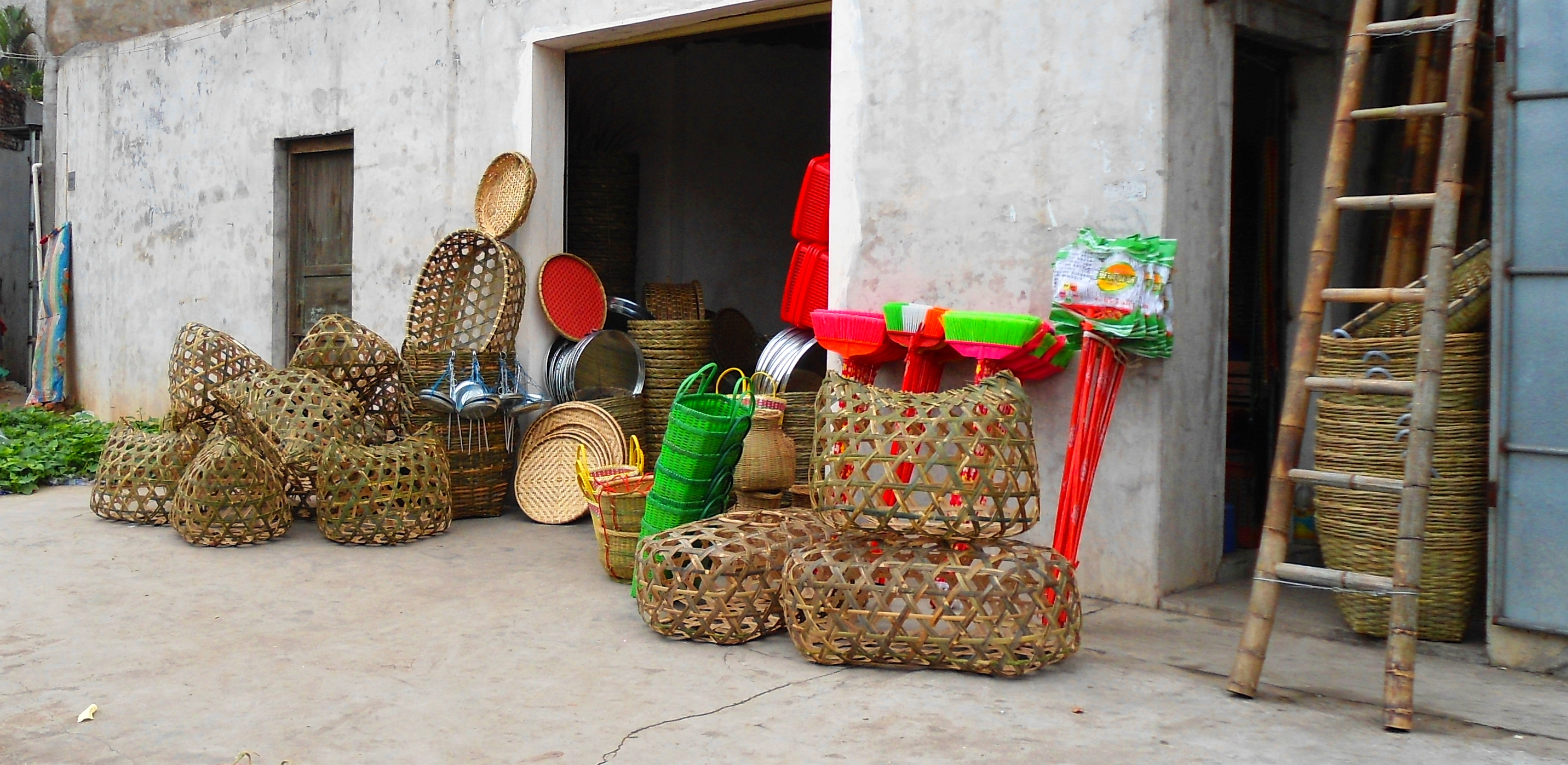 Baskets in Haikou City, Hainan Province, China. On the left side are live fowl baskets. Directly to the right are flat baskets used for selling shrimp and small fish.